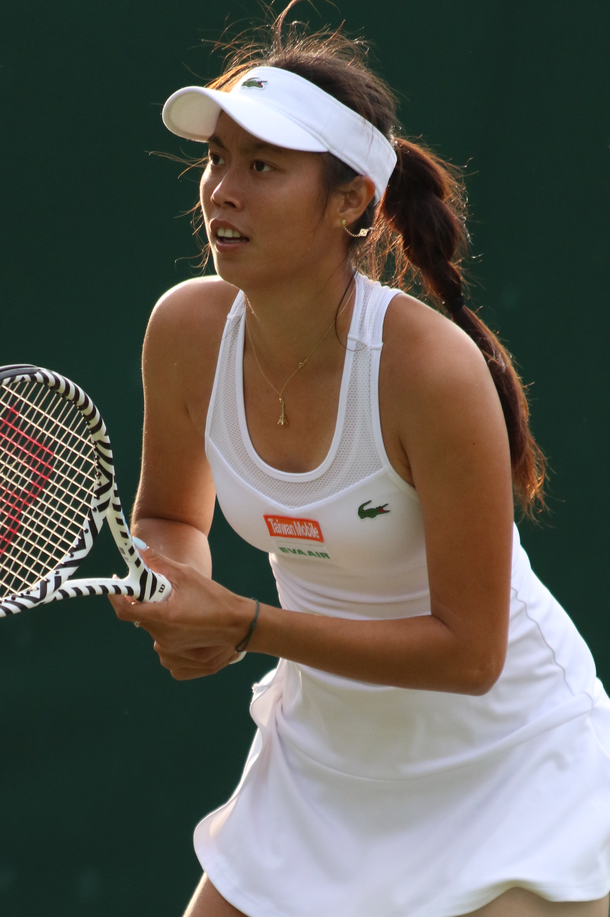 Chan HC. WM19 (17)